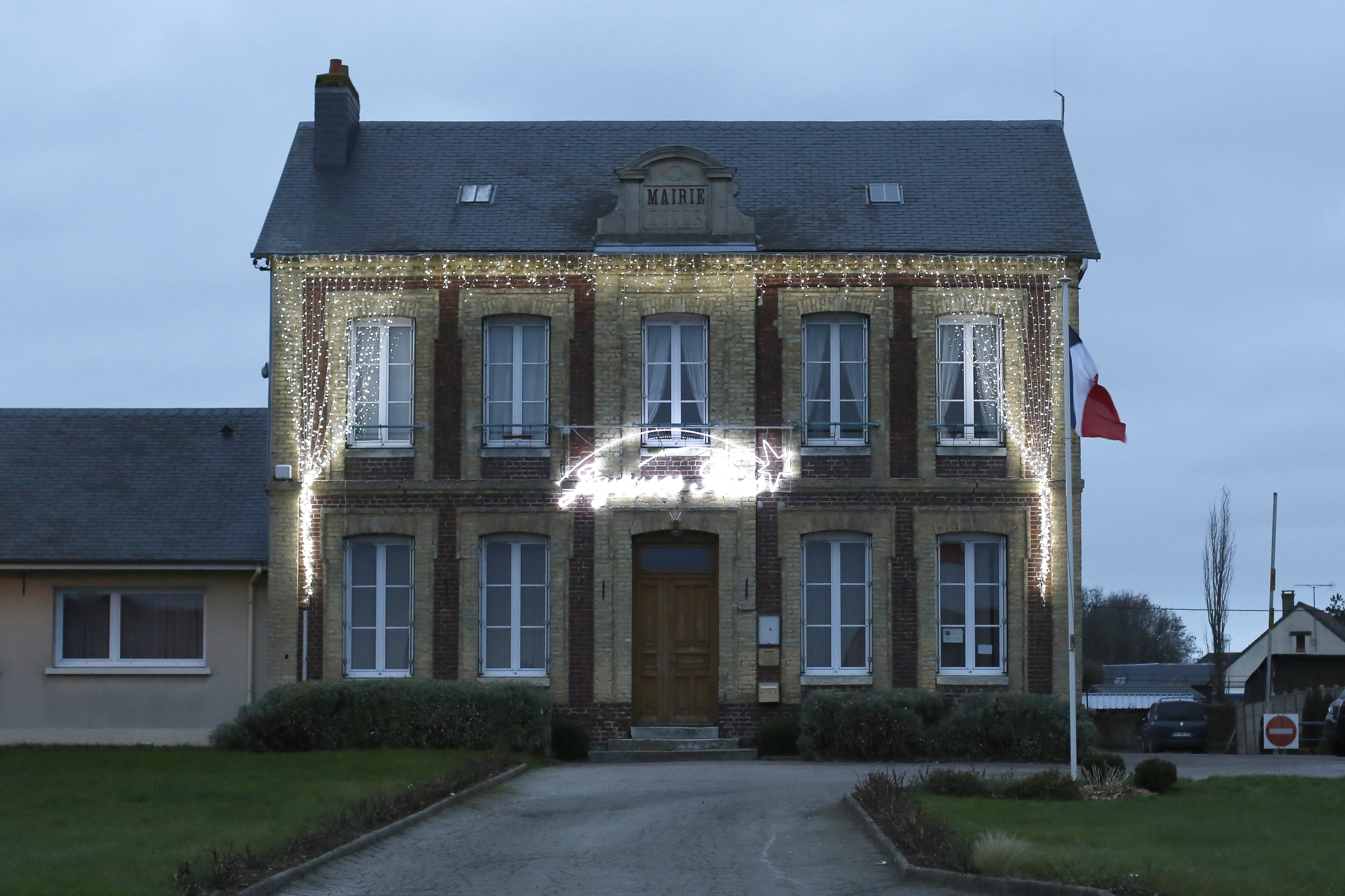 Town hall of Angerville-l'Orcher with Christmas lights.